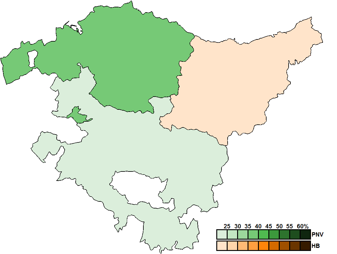 Provincial results for the 1994 Basque regional election.